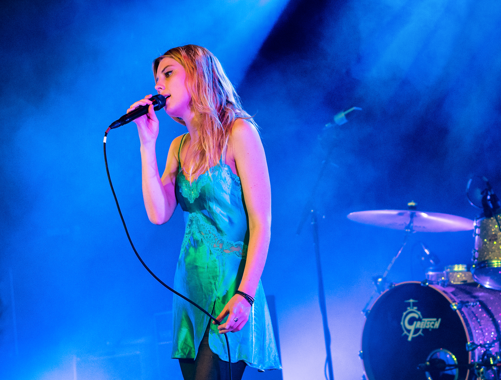 Wolf Alice live at The Junction 2015